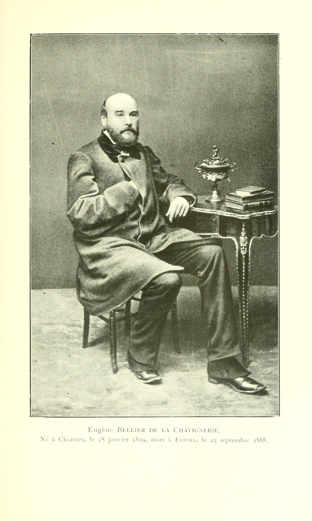 Eugene Bellier de la Chavignerie French entomologist